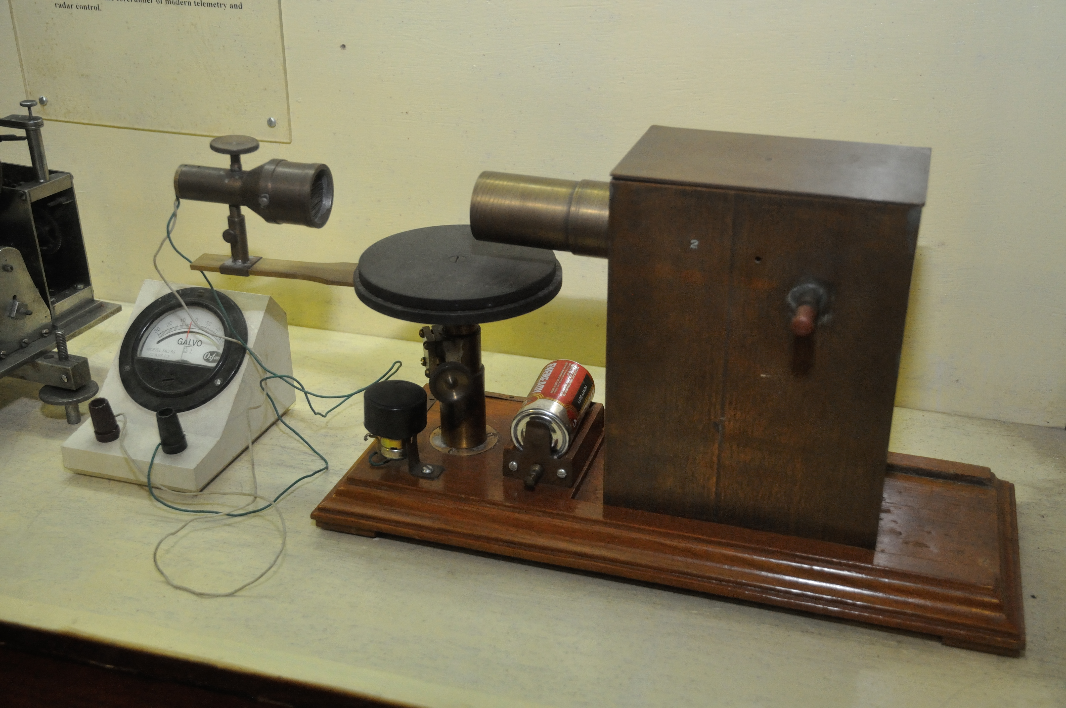 Microwave transmitter and receiver used by Sir Jagadish Chandra Bose (also written Jagadis Chunder Bose) (30 November, 1858 – 23 November, 1937), in his pioneering experiments with microwaves around 1897. The spark gap transmitter (right) used a spark gap radiator made of three tiny 3 mm metal balls excited by high voltage from an induction coil to generate microwaves at 60 GHz. The transmitter was enclosed inside the metal box (right) to prevent sparks from the coil's interrupter from disturbing the action of the receiver, and the microwaves emanated from the waveguide (metal tube). The receiver (left) used a galena point contact crystal rectifier inside the horn antenna and a galvanometer to detect the waves. The galvanometer (left) and battery (right) are modern replacements for Bose's original apparatus. Bose was the first to invent the crystal detector, horn antenna, dielectric lens, and other components now used in microwave apparatus. Jagadish Chandra Bose museum which is the part of the Bose Institute, Kolkata, is displaying some of the instruments designed, made and used by Sir J. C. Bose with his personal belongings, memorabilia and an exhibition on his Life and Works.